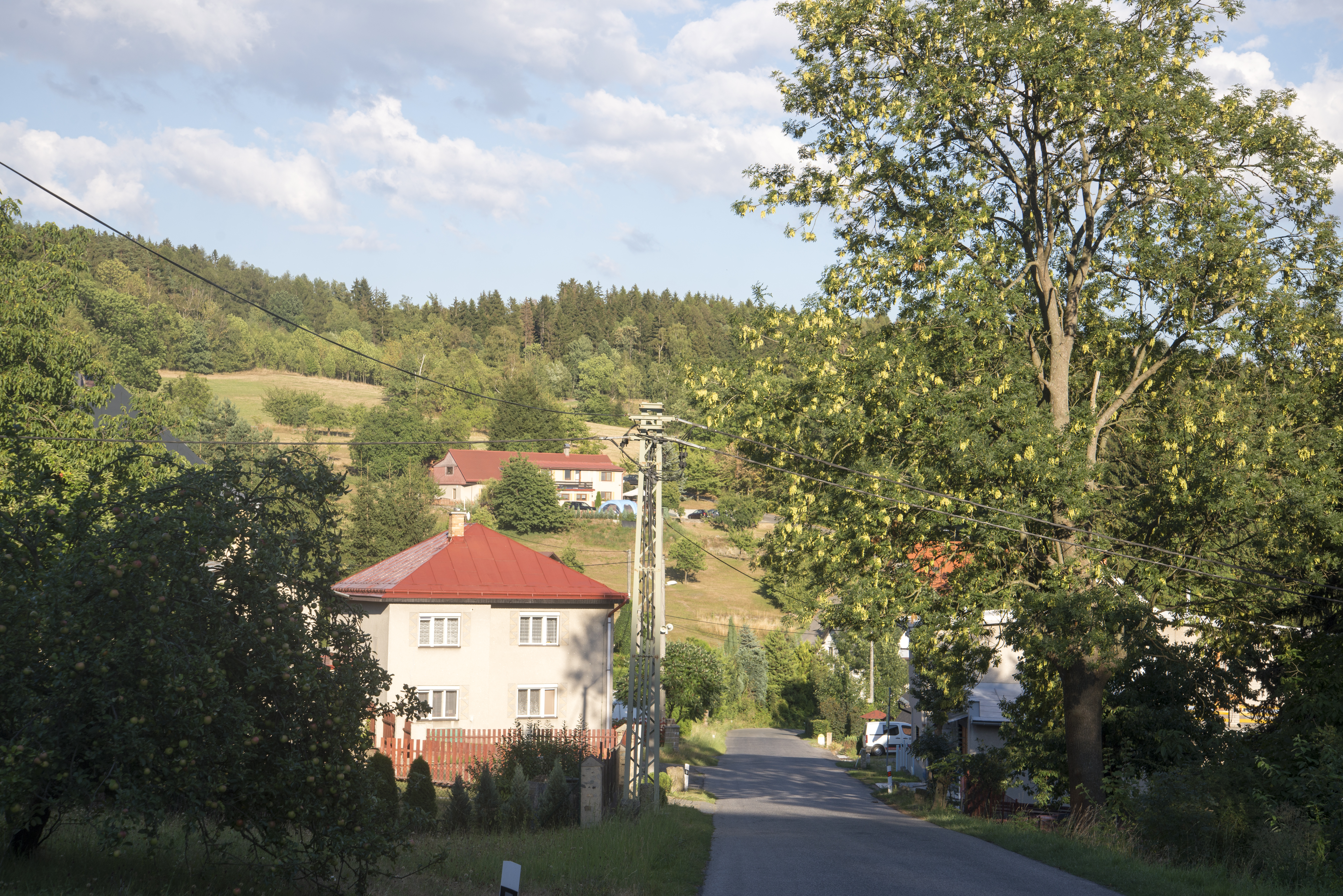 Skuhrov municipality, District Jablonec nad Nisou, Liberec Region, Czechia